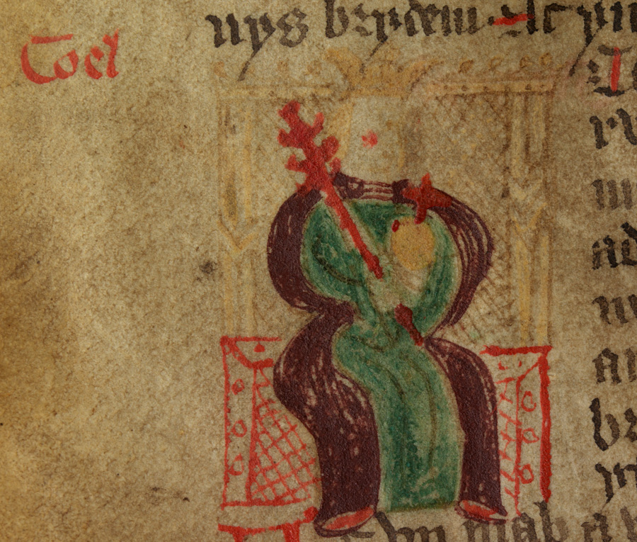 Coel. A crude illustration from a 15th century Welsh language version of Geoffrey of Monmouth’s highly influential Historia Regum Britanniae (‘History of the Kings of Britain’)